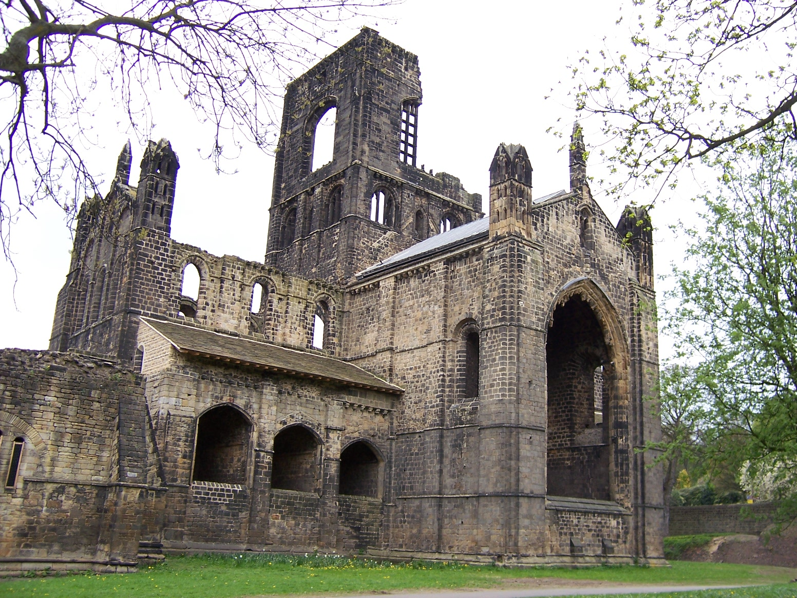 view of the church of Kirkstall Abbey in Leeds, Yorkshire (England), from the east own work; photo taken on 30 April 2006